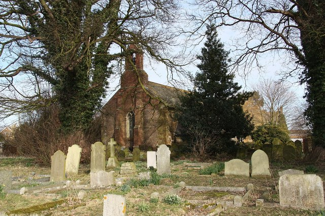 St.Margaret's church The redundant church of St.Margaret at Keddington